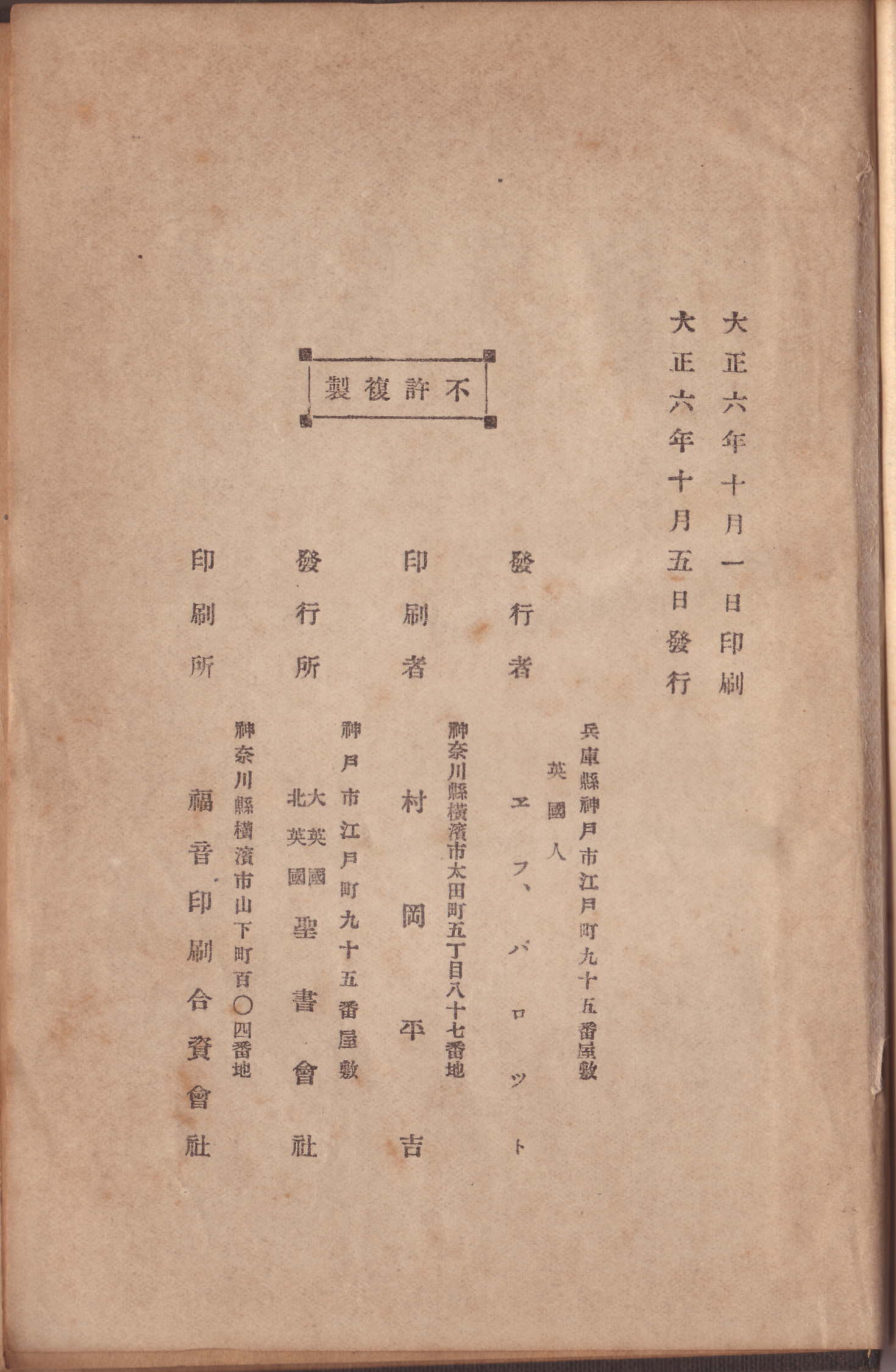 The New Testament, Japanese Revised Version (Taishô-kaiyaku), British Foreign Bible Society Japan Agency, Kobe, 1917. Colophon